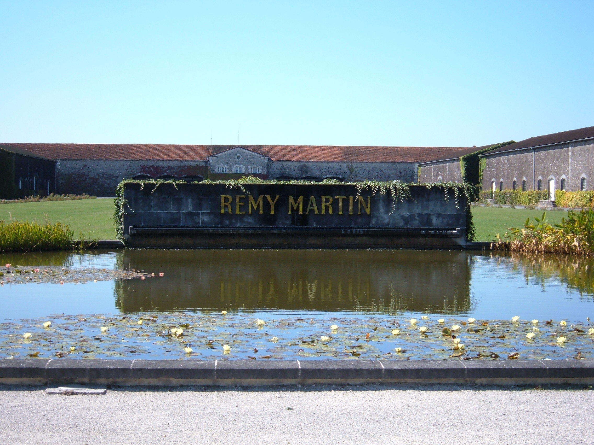 The Rémy Martin Estate in Merpins, France.